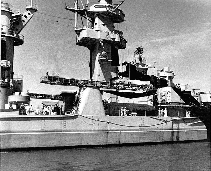 USS Alaska (CB-1): A detailed view of the forward superstructure and the aircraft catapults, circa 1945.